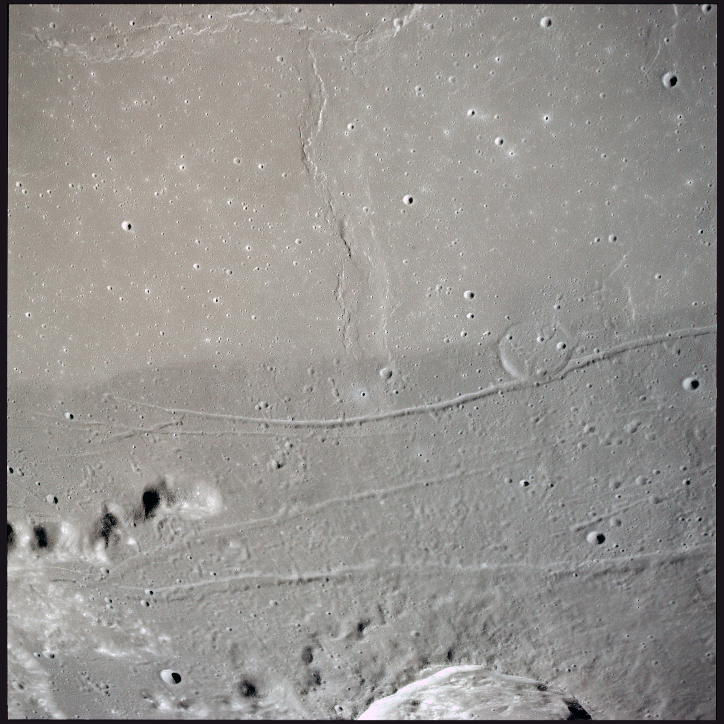 Southern Mare Serenitatis, on the moon. This is Figure 59 of Apollo Over the Moon (NASA SP-362, 1978), which has the following caption: Some of the strongest tonal, color, and structural contrasts among mare materials occur in Mare Serenitatis. Accordingly, it has become a classic area for studying the sequence (or stratigraphy) of mare rocks. Earlier studies of telescopic photographs seemed to provide evidence that the lighter materials in the center of the basin (top half of this view) were emplaced before the darker lavas erupted along the basin margin. However, pictures returned by Apollo 17 show that the opposite is true. The dark materials were emplaced first. They were then tilted northward and broken by faults, such as those that bound the Plinius Rilles, before the light lava flooded against them (Howard et al., 1973). The large mare ridge or wrinkle ridge deforms both light and dark mare units but is much more prominent in the lighter unit. Detailed spectral studies and visual observations by the Apollo 17 astronauts show that the lighter-toned mare is relatively browner and the darker mare is relatively bluer.-K.A.H. (Keith A. Howard)